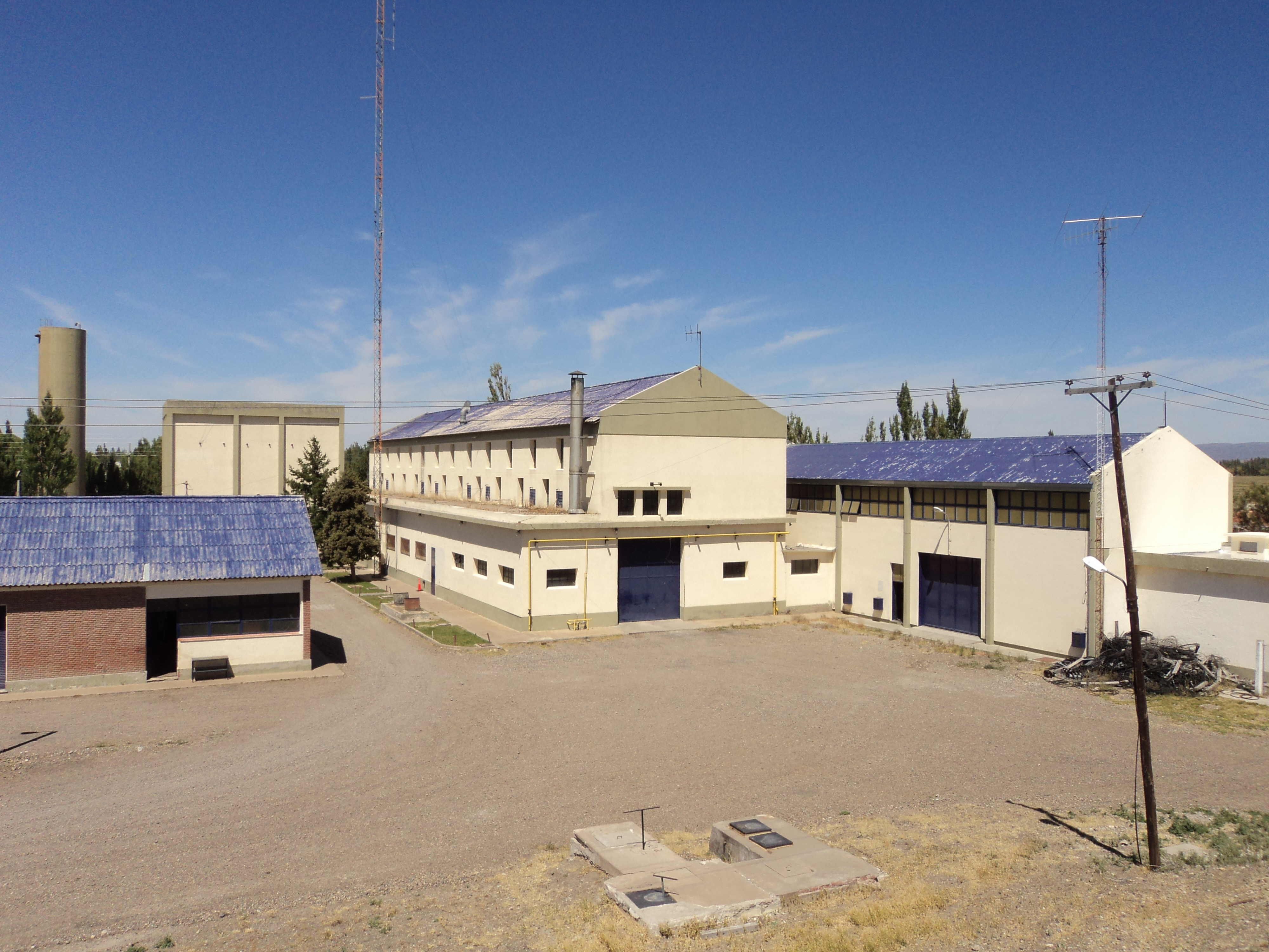 Estación de bombeo Sarmiento